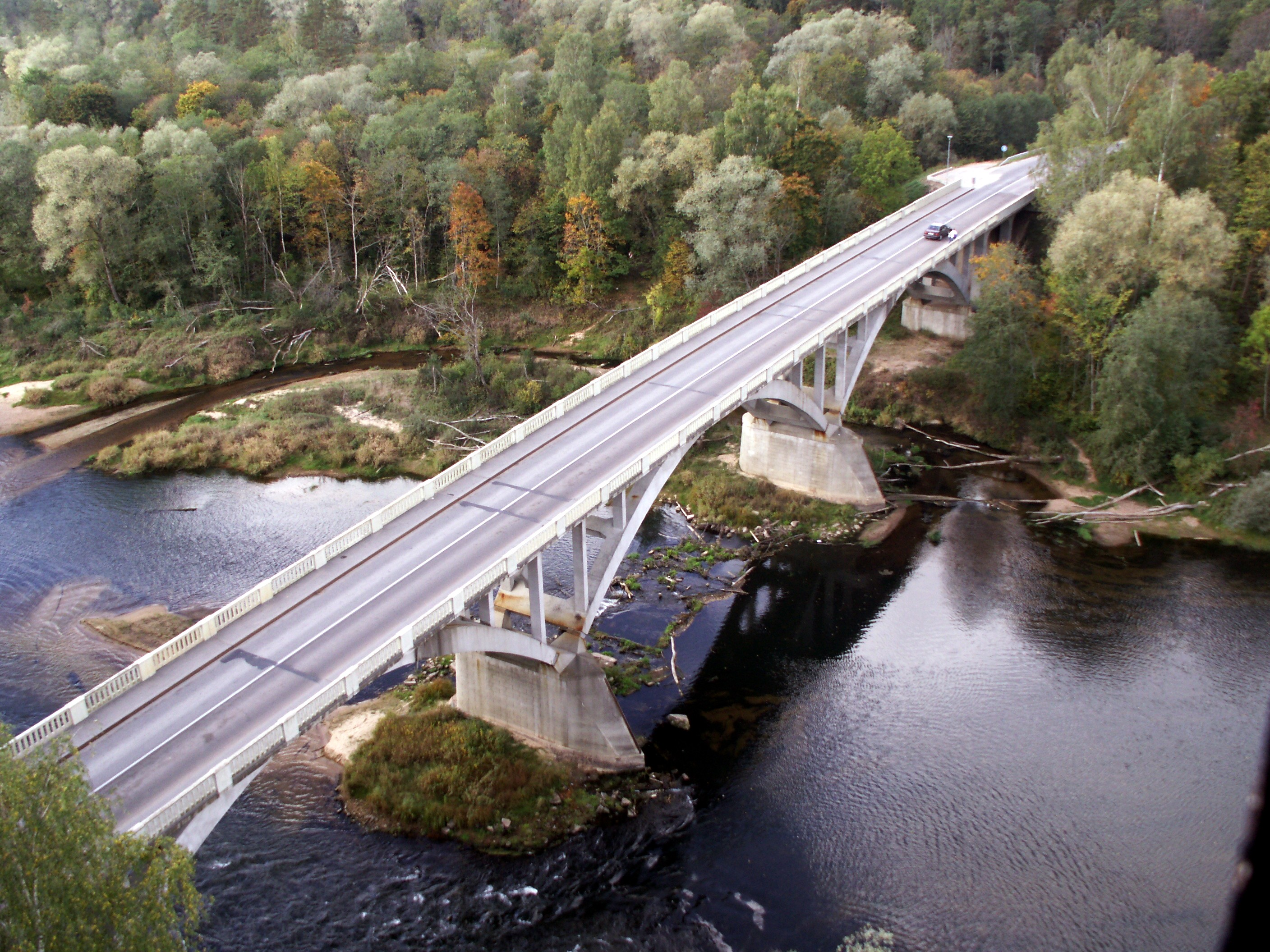 Bridge over Gauja, near Sigulda, Latvia